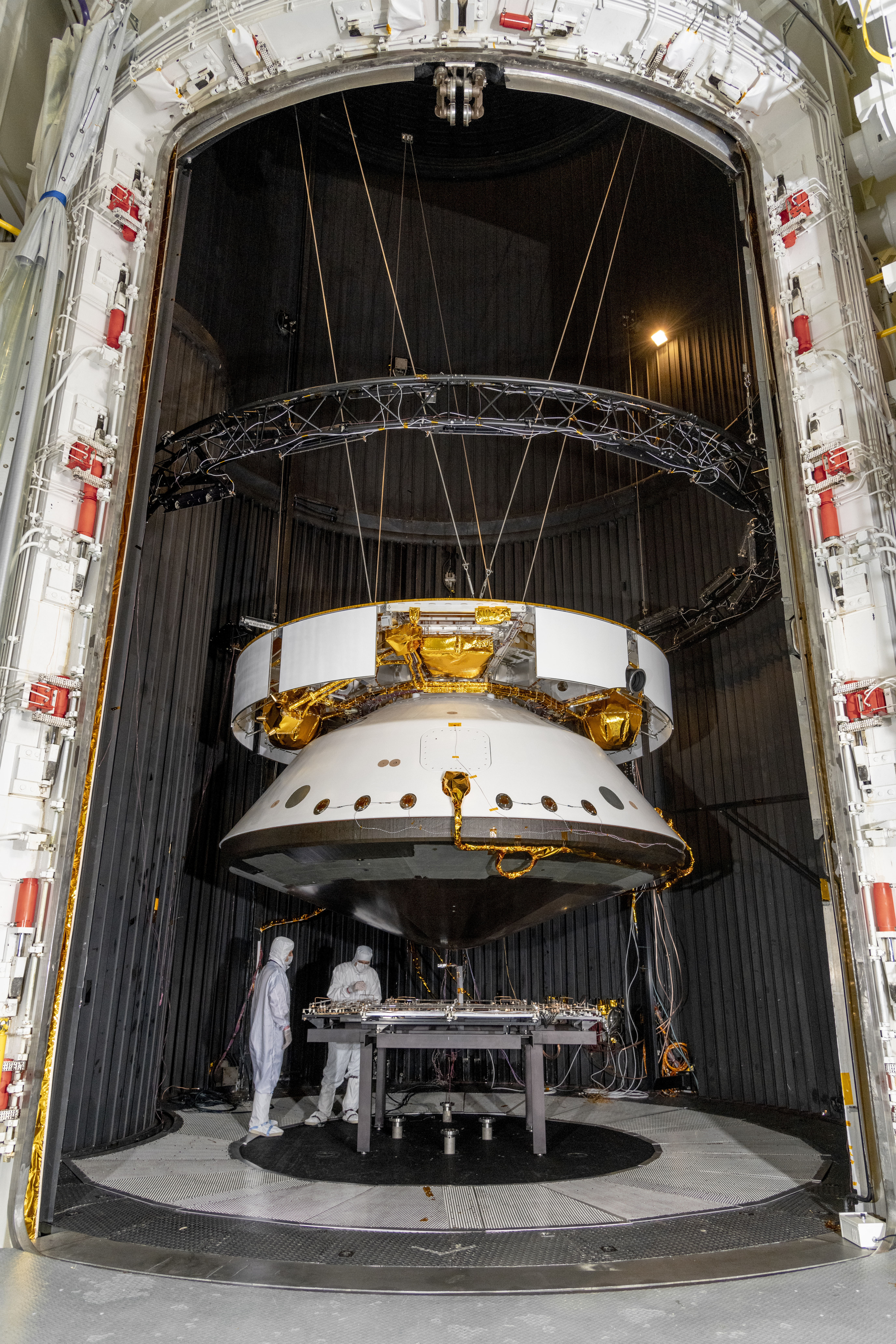 Mars 2020 spacecraft thermal vacuum test M2020 Solar Mapping in the 25ft Chamber Requester: David Gruel Photographer: Gregory M. Waigand Date: 2019-04-26 Photolab order: 070915-171696